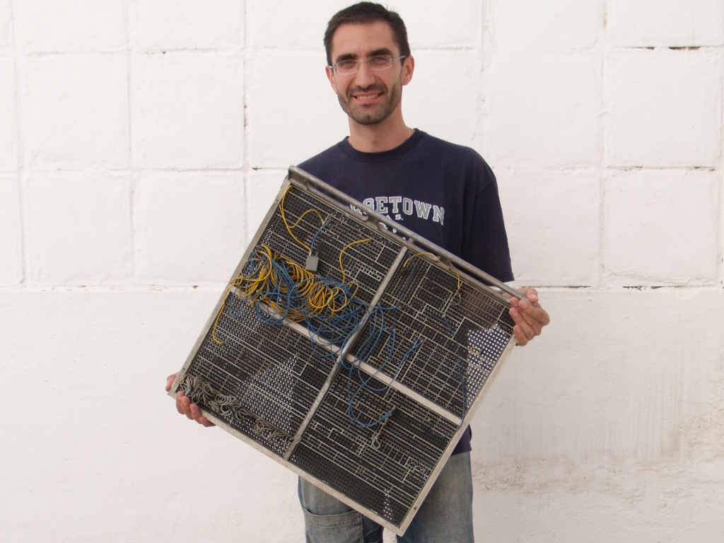 Long time ago the machines were programed using programming panels, control panels and wiring the conections with cables.